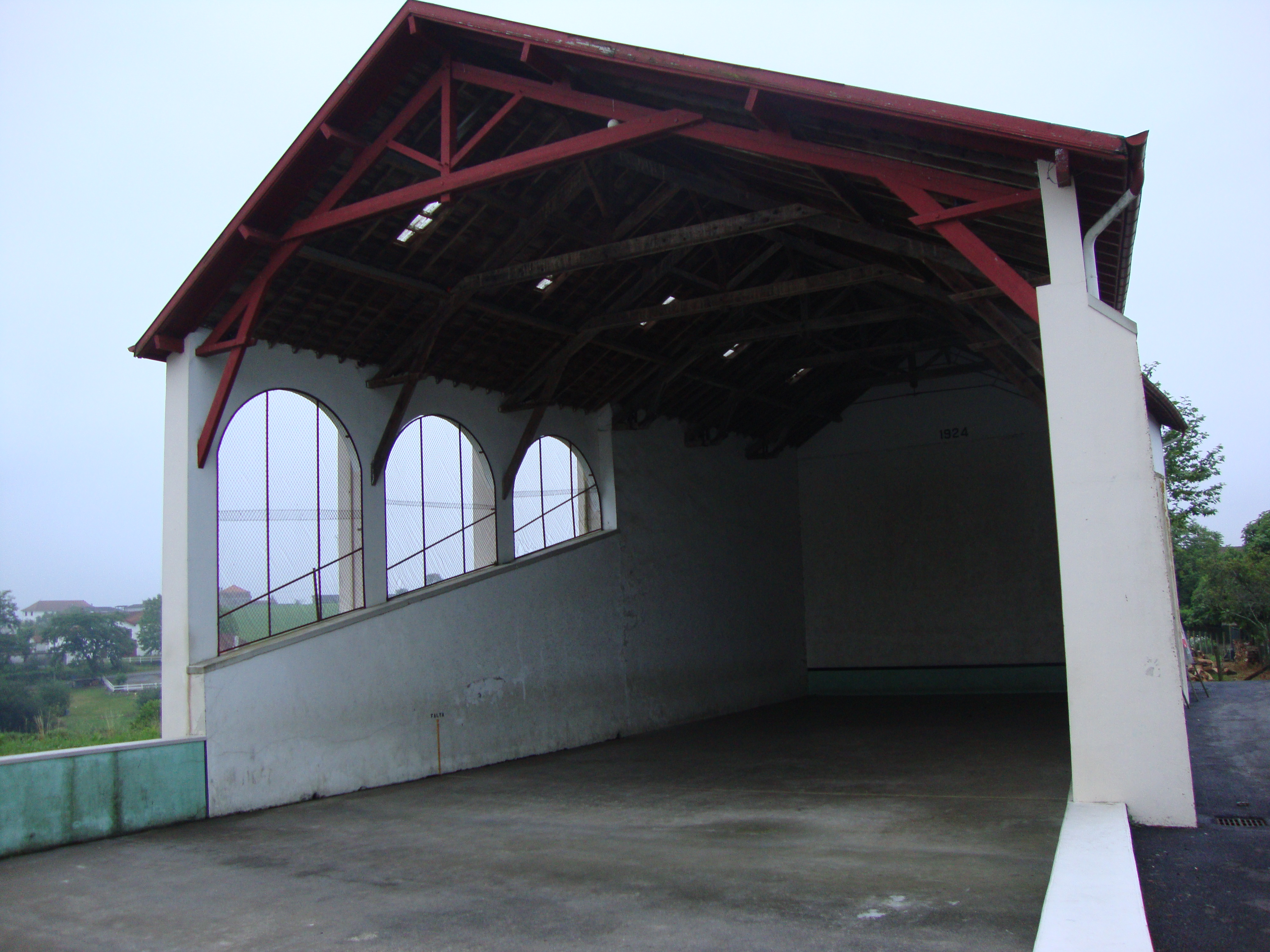 Etcharry (Pyr-Atl, Fr) roofed-in pelota court